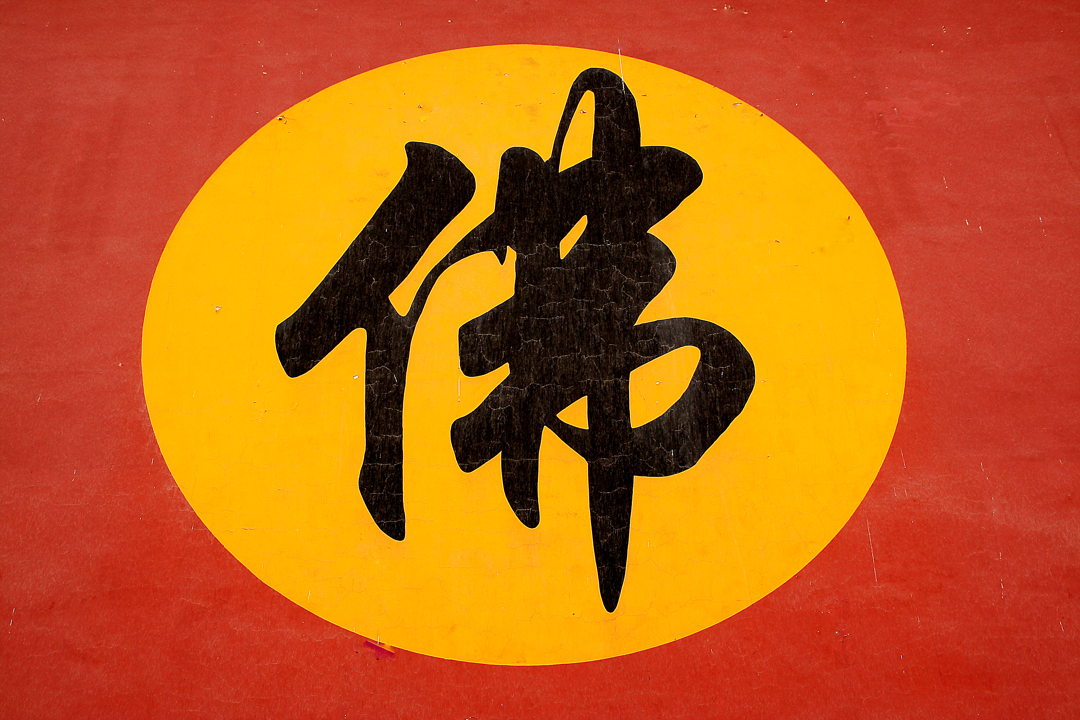 Chinese character 佛 for Buddha (Fo) at a Buddhist monastery near You Yi Lu, Tianjin, China.